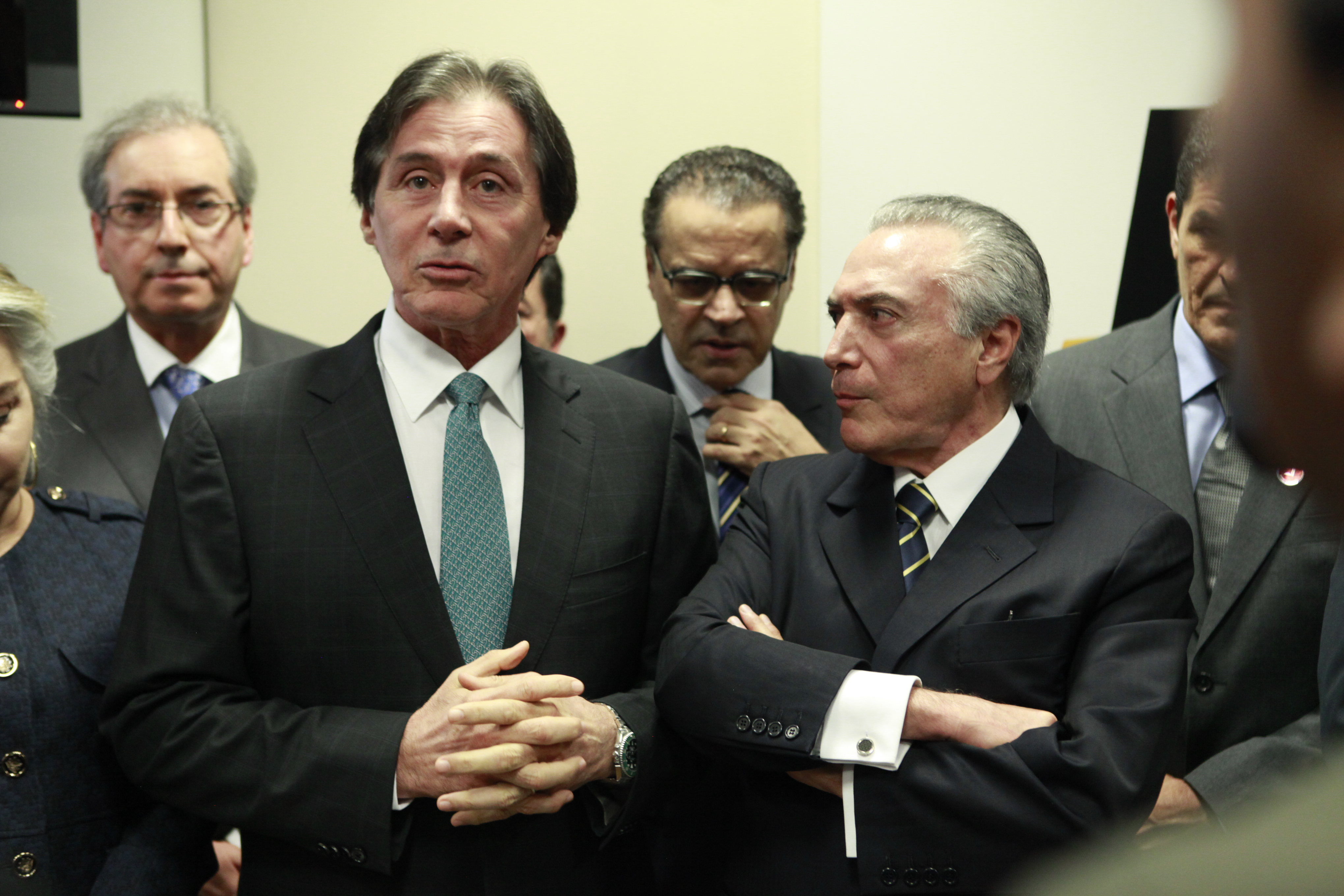 Eunício Oliveira, Michel Temer and Eduardo Cunha